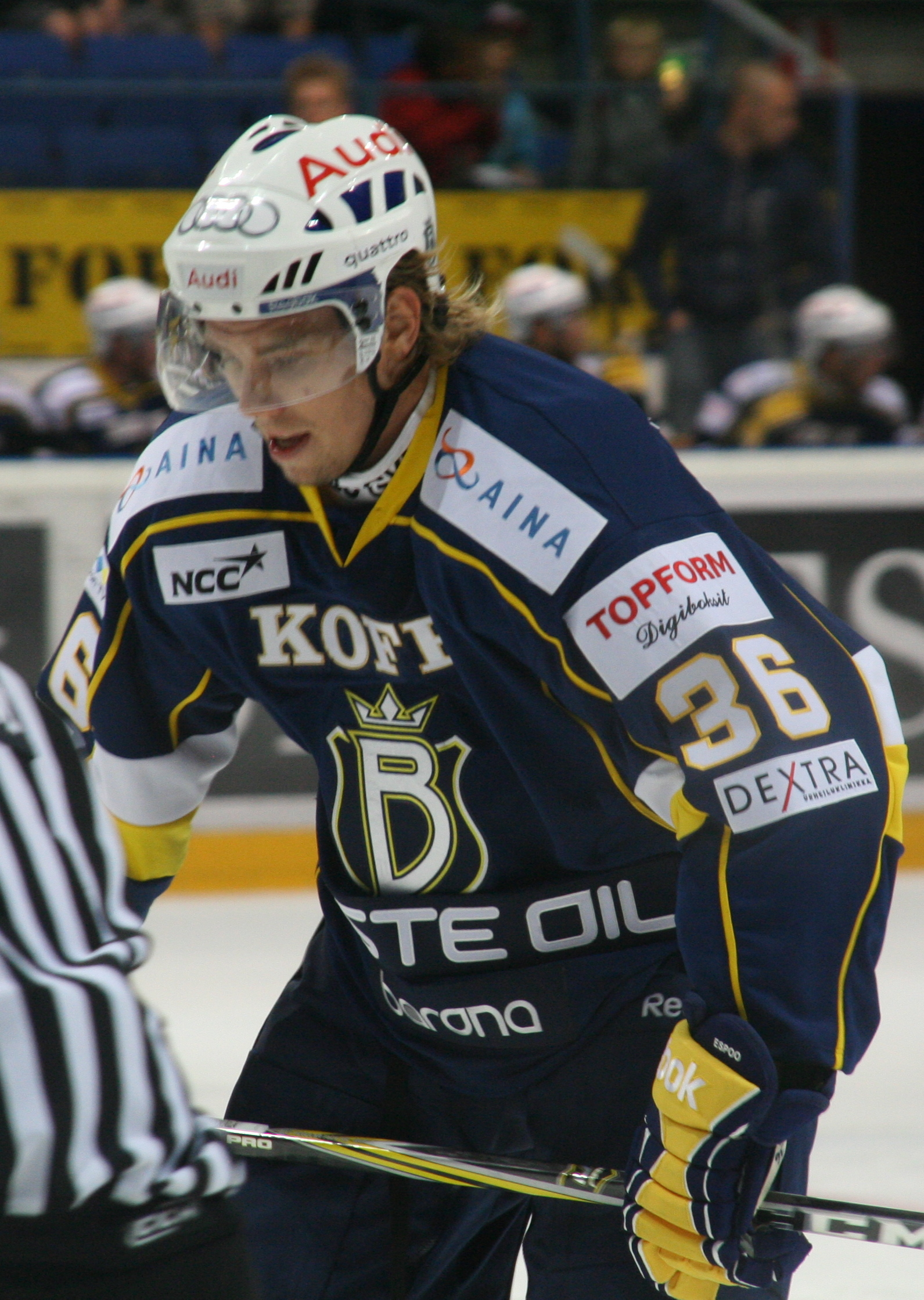 Ice Hockey Team Espoo Blues' Attacker #36 Joni Töykkälä.